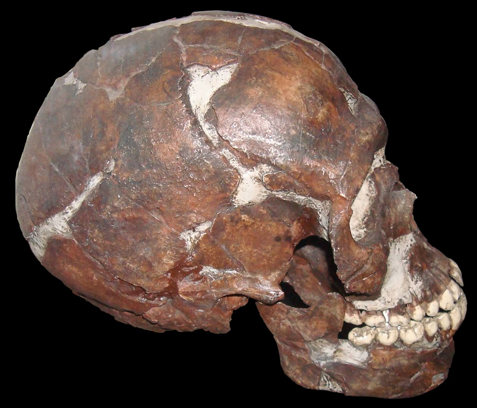 early modern human from Qafzeh Israel, cast from the American Museum of Natural History